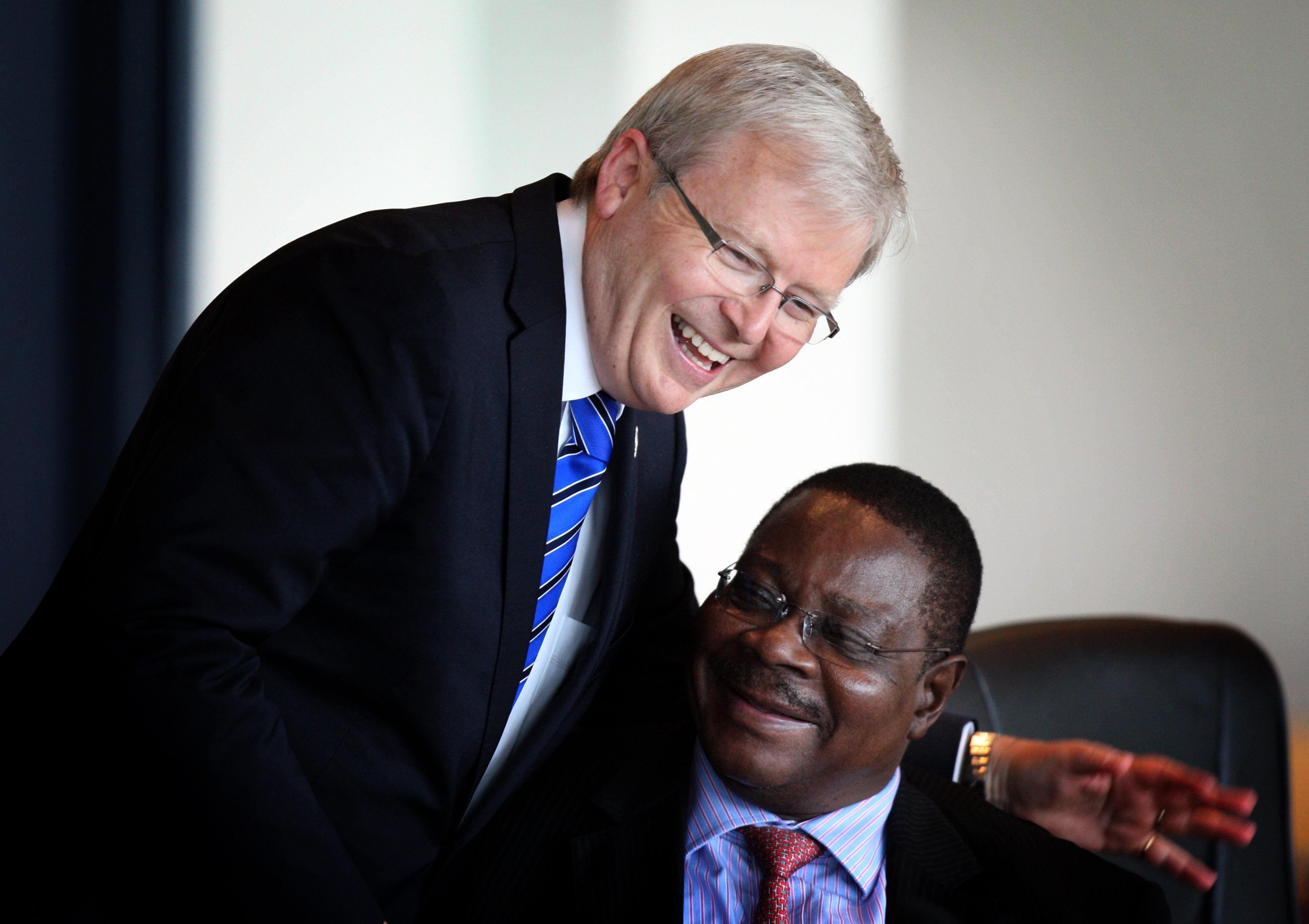 CHOGM 2011—Civil Society roundtable with Foreign Ministers this afternoon at The PCEC as part of pre-CHOGM meetings. The Minister of Foreign Affairs for Malawi Prof Arthur Peter Mutharika talks with the then Australian Minister for Foreign Affairs Kevin Rudd. Photograph by Mike Bowers/CHOGM